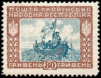 An unissued Ukrainian 80-hryvnia "Cossacks on the Black Sea" stamp from the time of the Ukrainian People's Republic. It is from a set of 14 stamps that were ordered by the Ukrainian government and produced in December 1920 by the Austrian Military Map Printing Service of Vienna. Ukraine, however, was conquered by the Red army before the stamps could be issued.